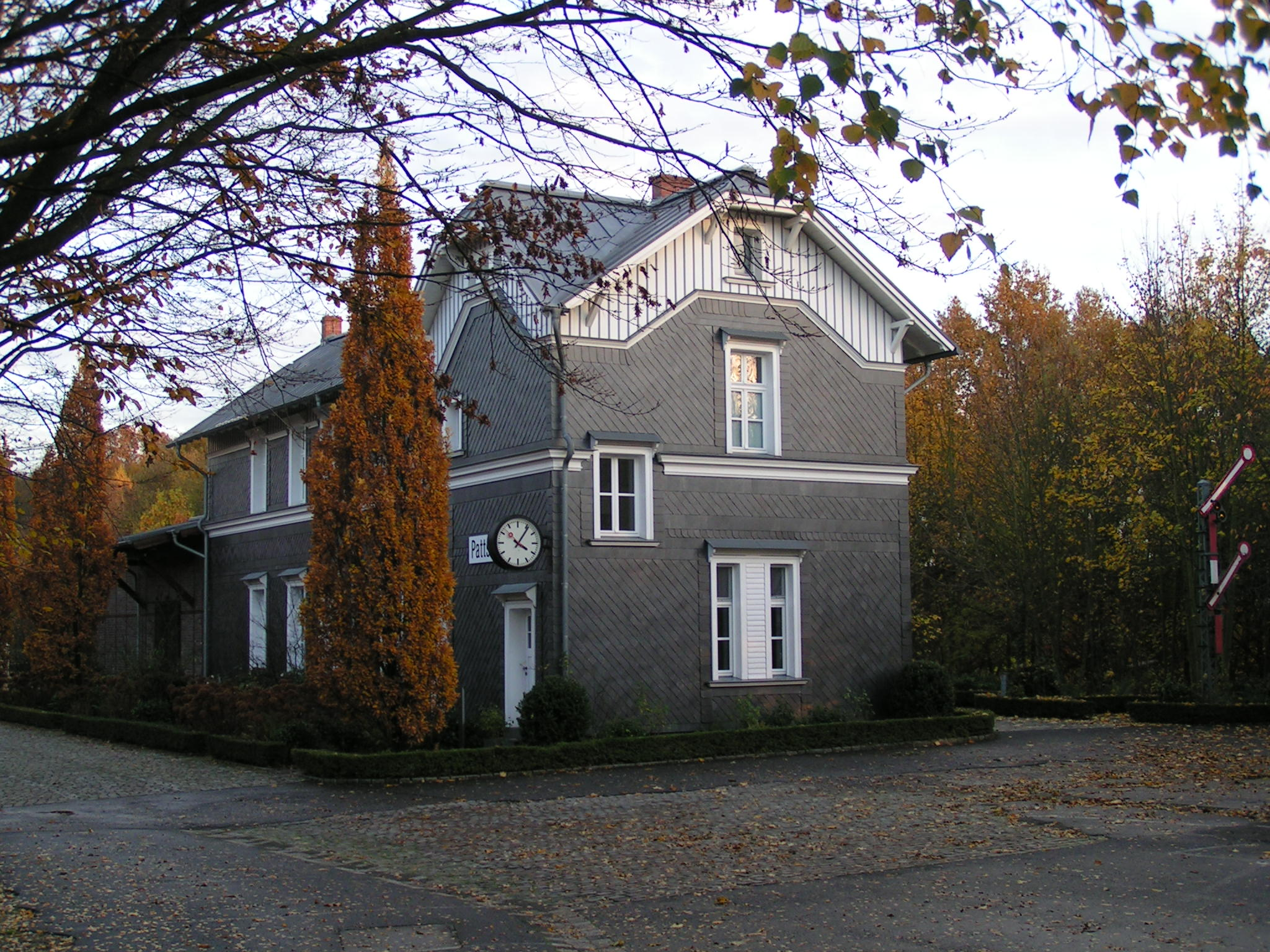 Former railway station in Pattscheid (now part of Leverkusen), Germany